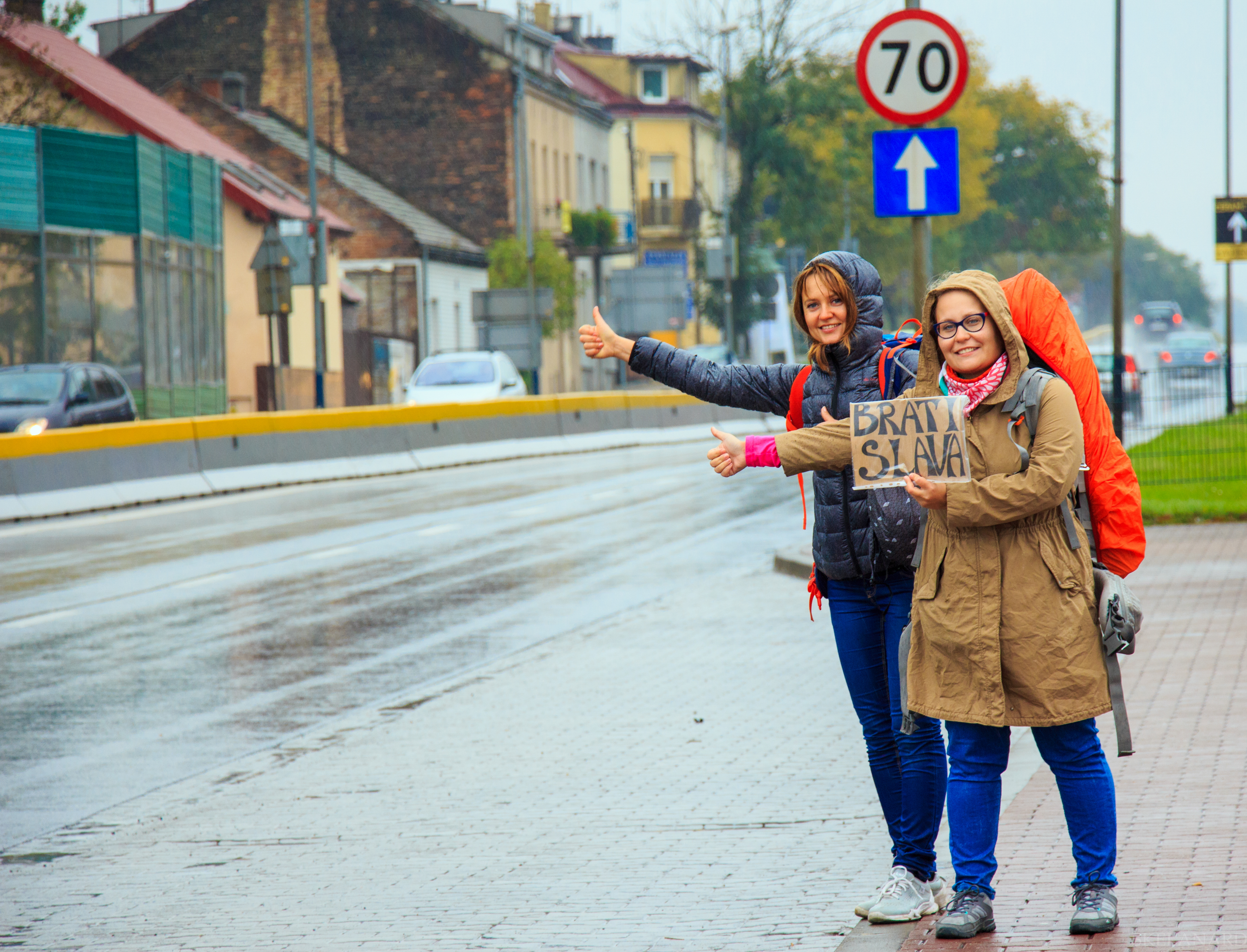 Hitchhiking in the south part of Kraków, Poland. One of the hitchhikers is holding a card where the destination is singed